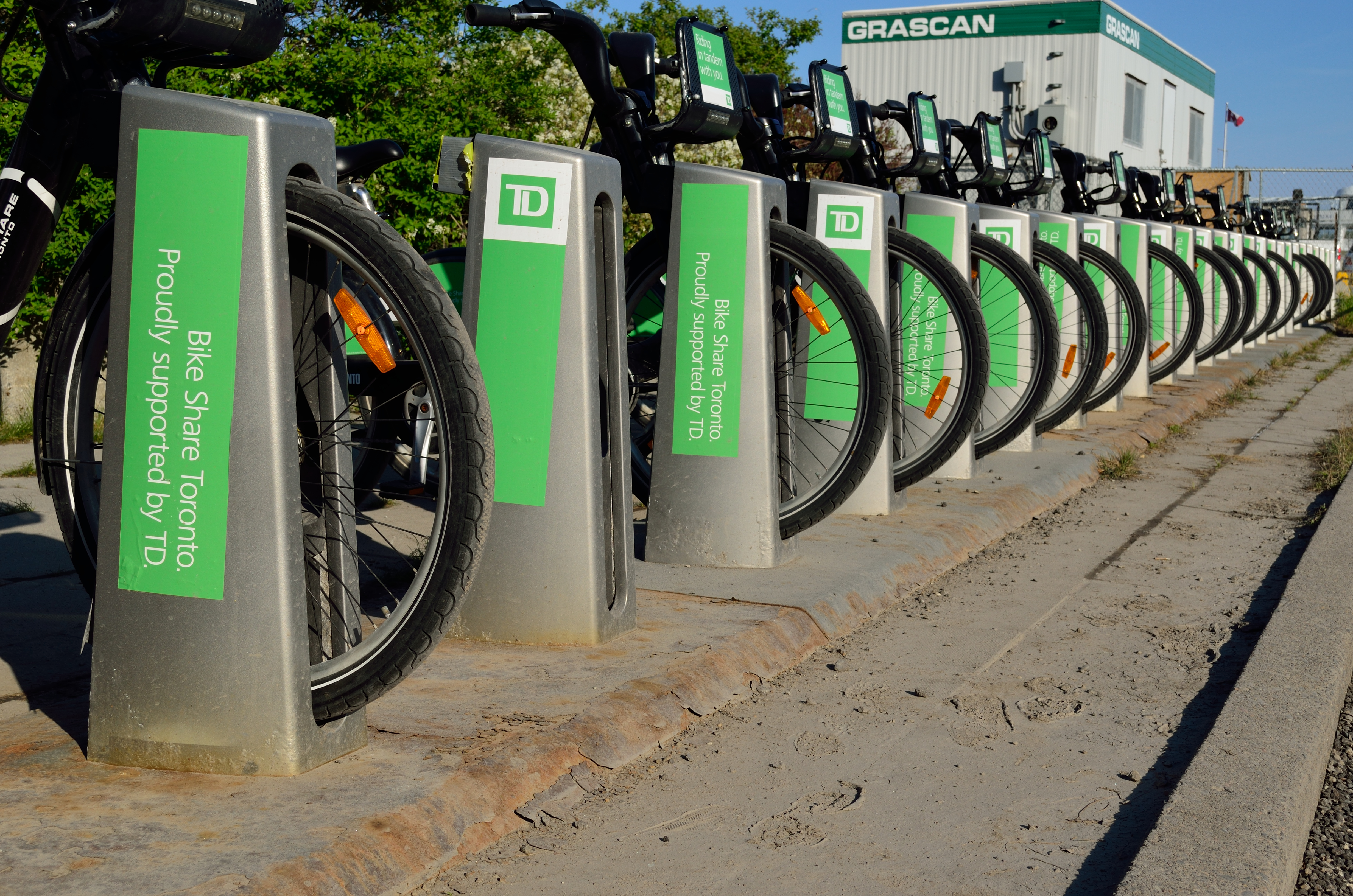 Bike Share Toronto near Toronto Waterfront at Spadina